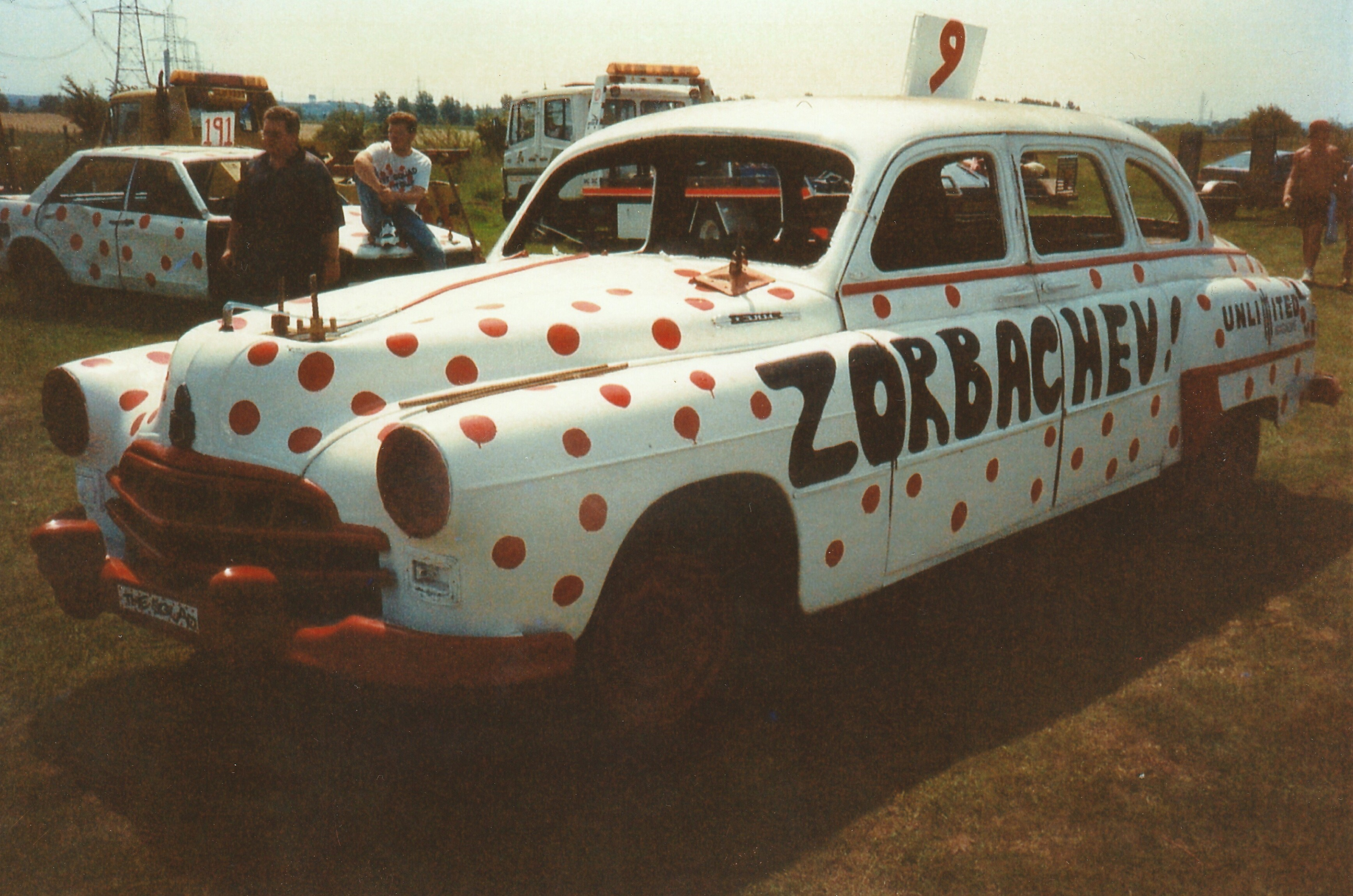 Zil the most famous banger